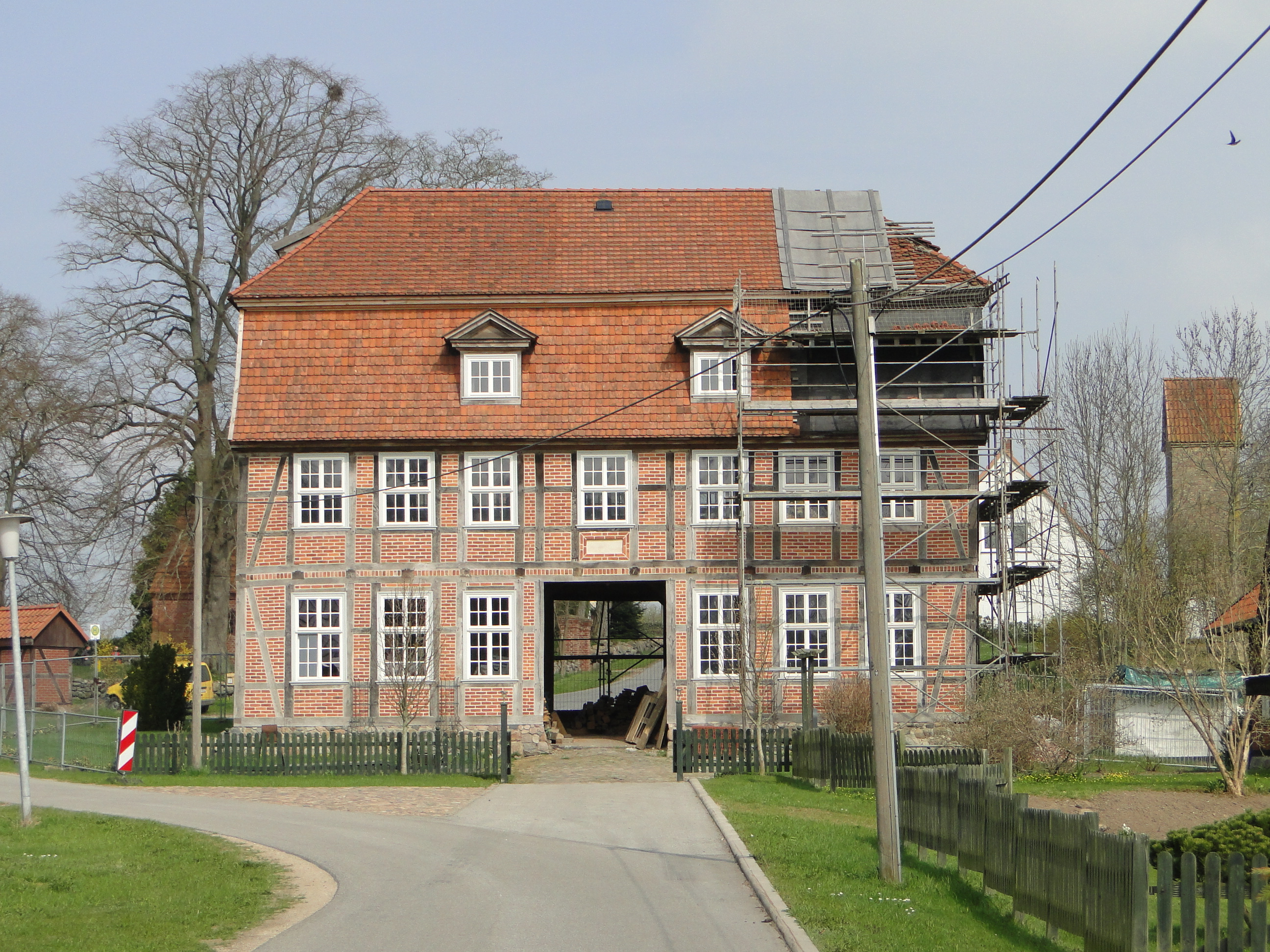 Gatehouse of the manor in Zaschendorf, district Ludwigslust-Parchim, Mecklenburg-Vorpommern, Germany